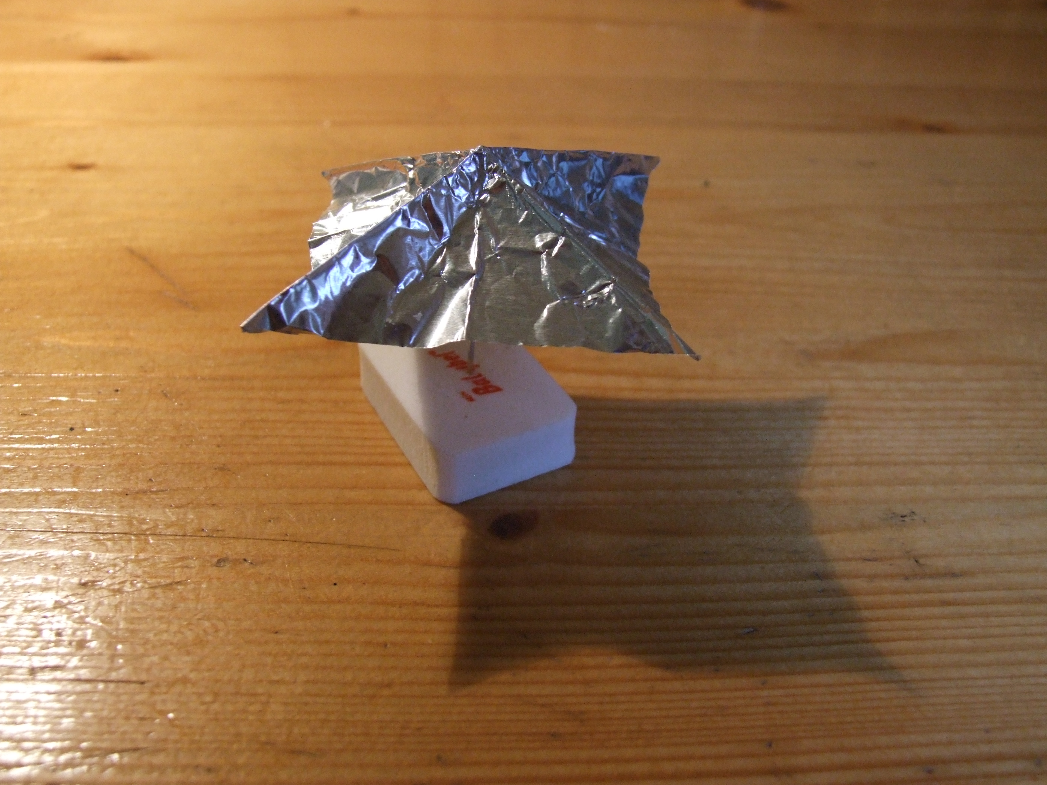 A photo i took myself of the so-called psi wheel, consisting out of folded aluminium foil in the shape of a pyramid with a needle and a pencil eraser, something i'm using for my article on psi wheel on the dutch wikipedia.